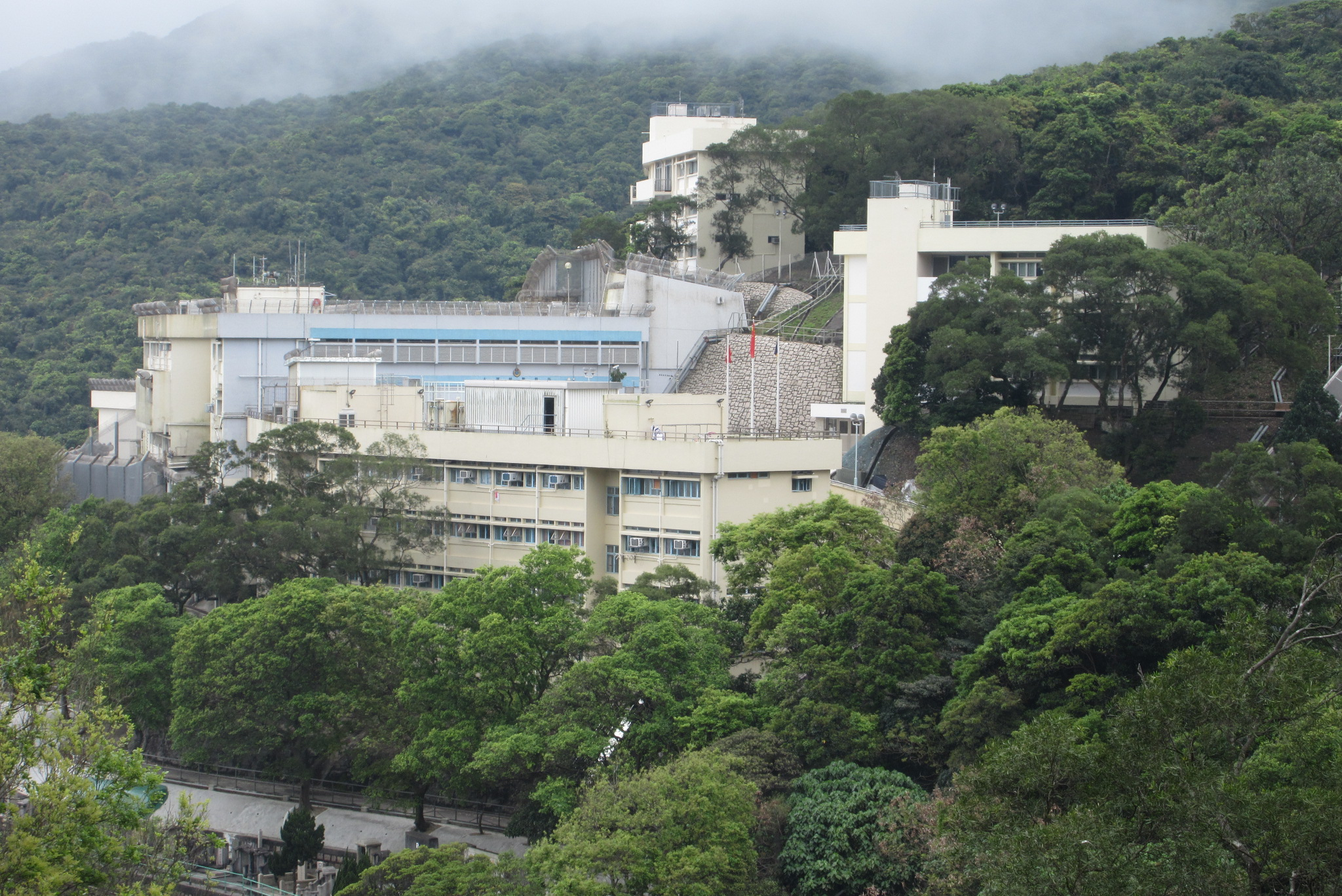 HK 柴灣 Chai Wan Cape Collinson Crematorium n Cemetery 歌連臣角火葬場 in April 2017